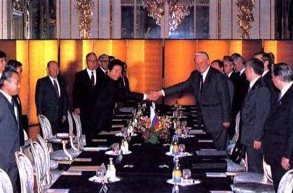 Boris Yeltsin, President, met Morihiro Hosokawa, Prime Minister, with Hirohisa Fujii, Minister of Finance, and Masayoshi Takemura, Chief Cabinet Secretary, in Tōkyō Metropolis on October, 1993.(For terms of use, see 法的事項 ｜ 外務省.)